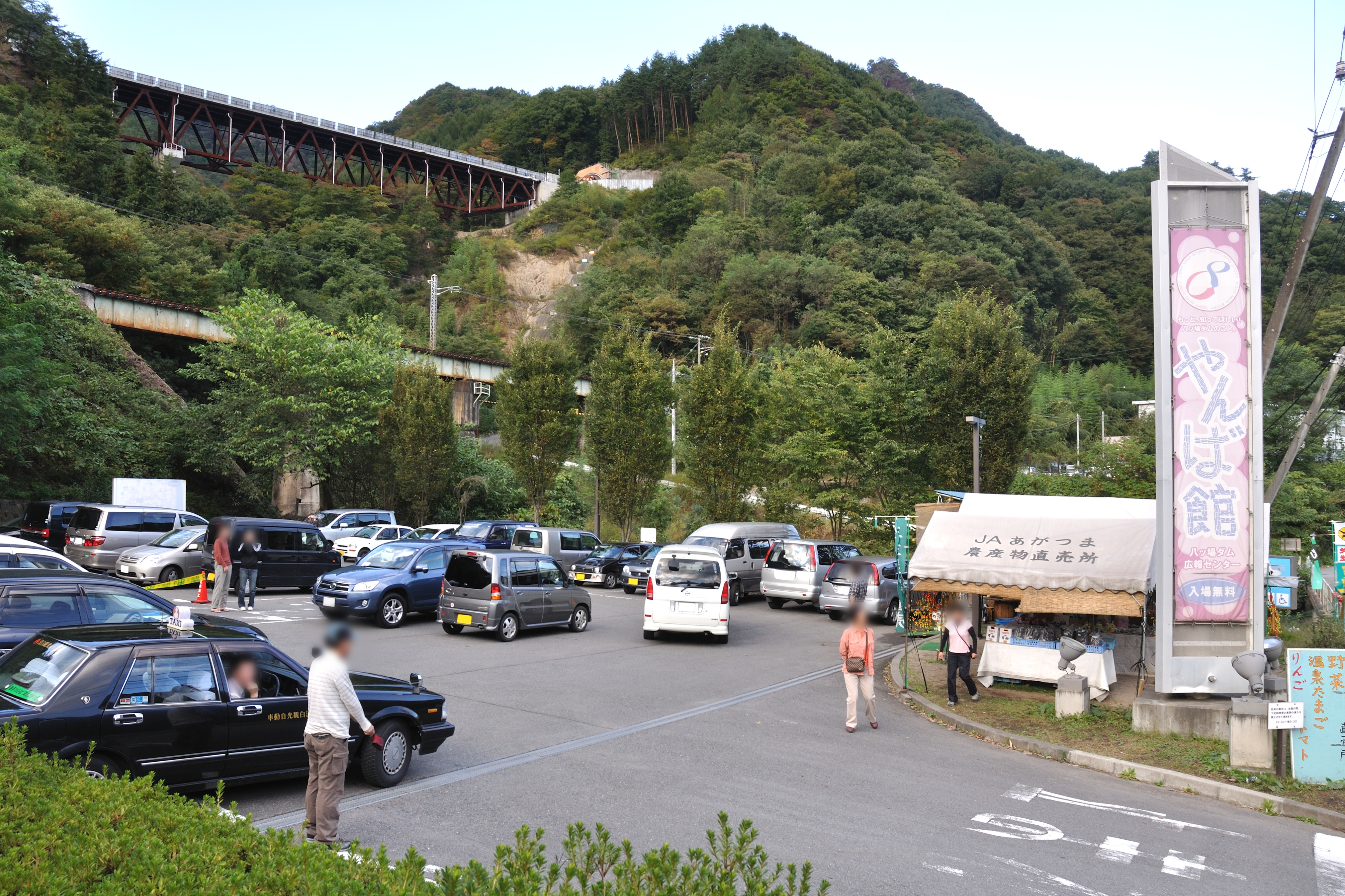 Photograph of Yanbakan, parking area, is information center of Yanba Dam in Naganohara Town, Gunma Prefecture.